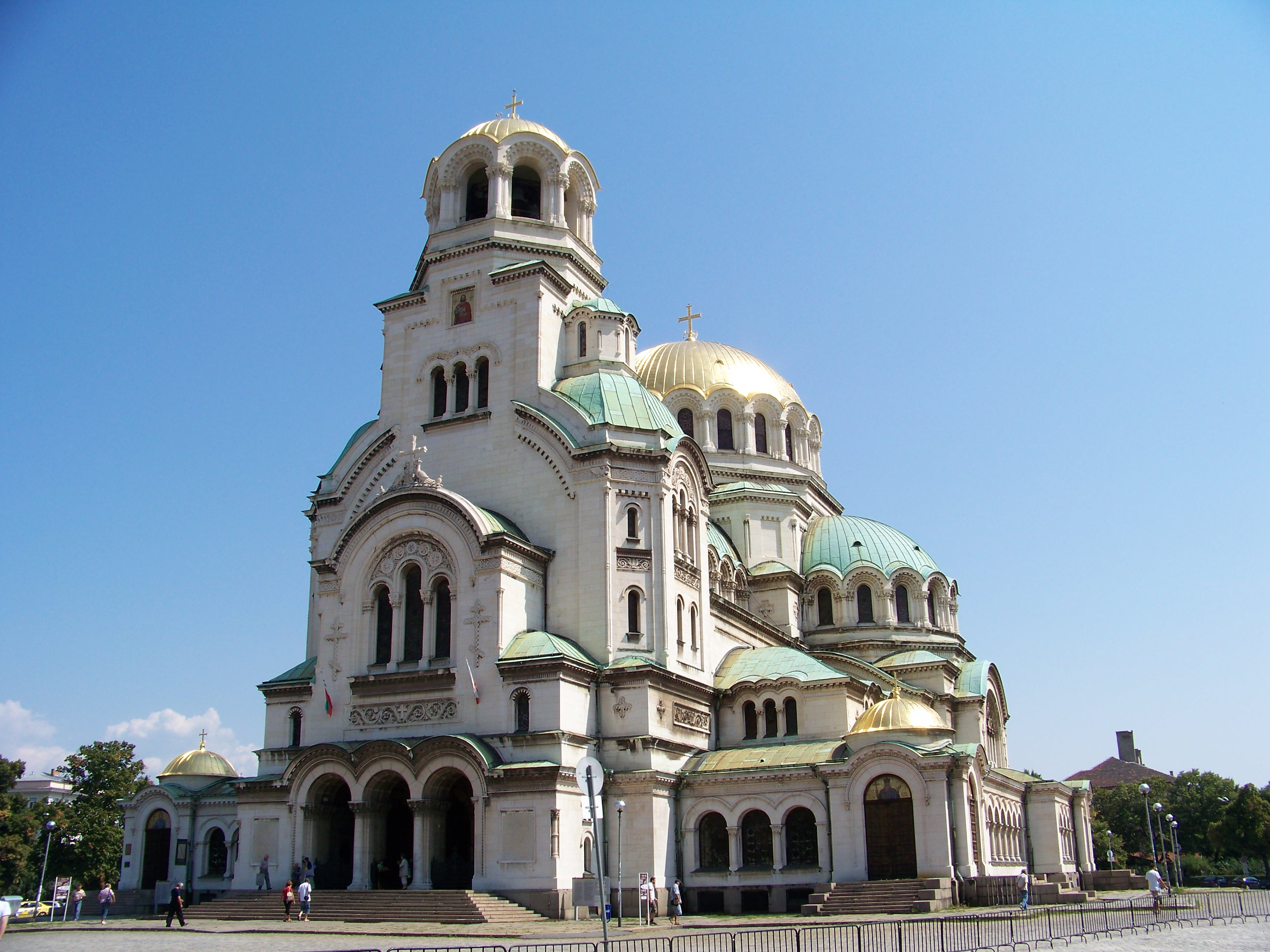 The St. Alexander Nevsky Cathedral is a Bulgarian Orthodox cathedral in Sofia, the capital of Bulgaria.